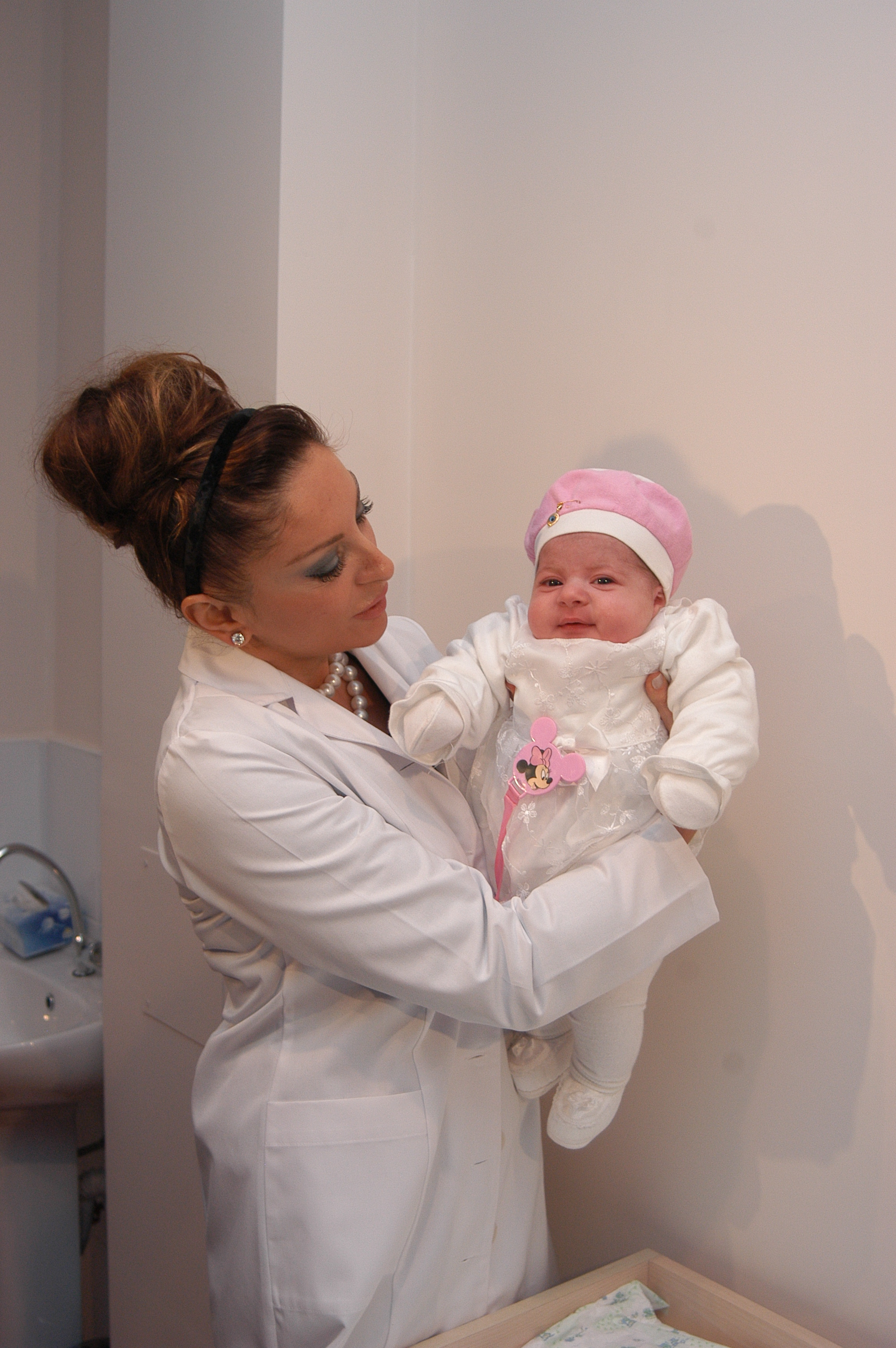 Mehriban Aliyeva in hospital oppenning